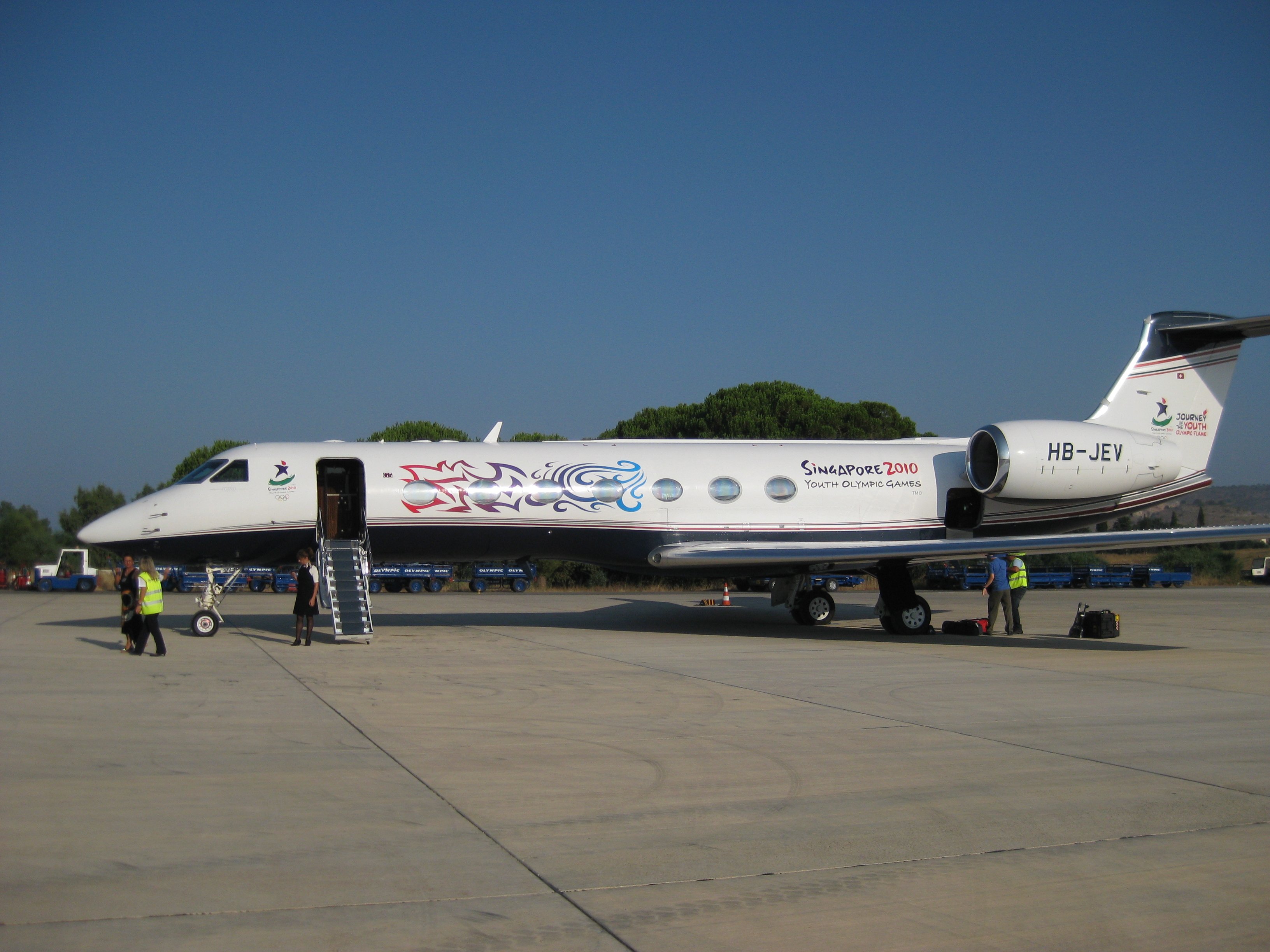 Gulfstream G550, tail no. HB-JEV, used to transport the Youth Olympic flame on its 5-city world journey.